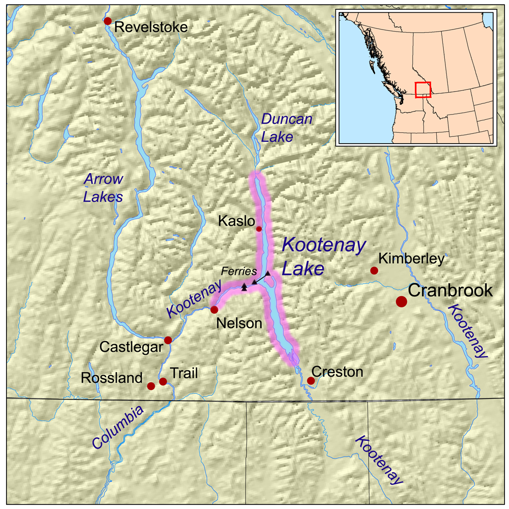 This is a map highlighting Kootenay Lake.